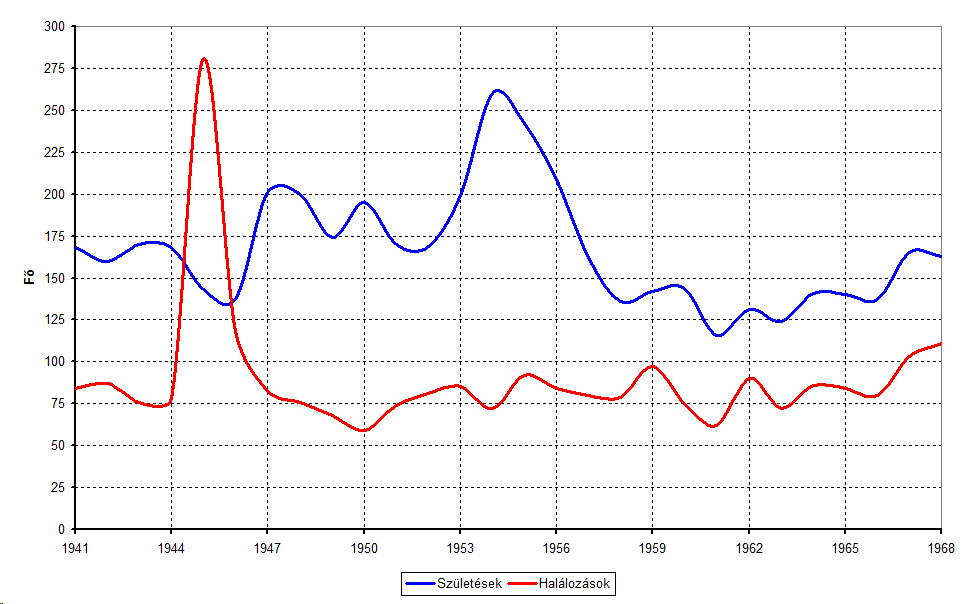 Vital statistics in Dorog, Hungary